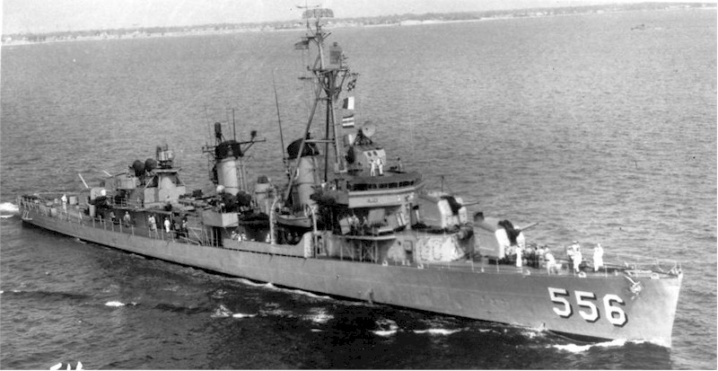 The U.S. Navy destroyer USS Hailey (DD-556) entering Norfolk, Virginia (USA), in 1960.